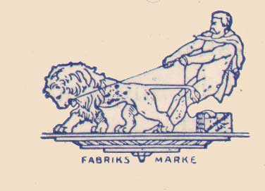 Logotype from Swedish Cotton Mill Gamlestadens